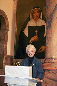 Sister Ann Margaret O'Hara, general superior of the Sisters of Providence of Saint Mary-of-the-Woods, Indiana, announces the canonization of the congregation's foundress, Saint Mother Theodore Guerin.